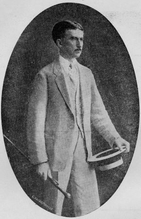 Dimitrios Theodoridis (1875-?): Greek physician